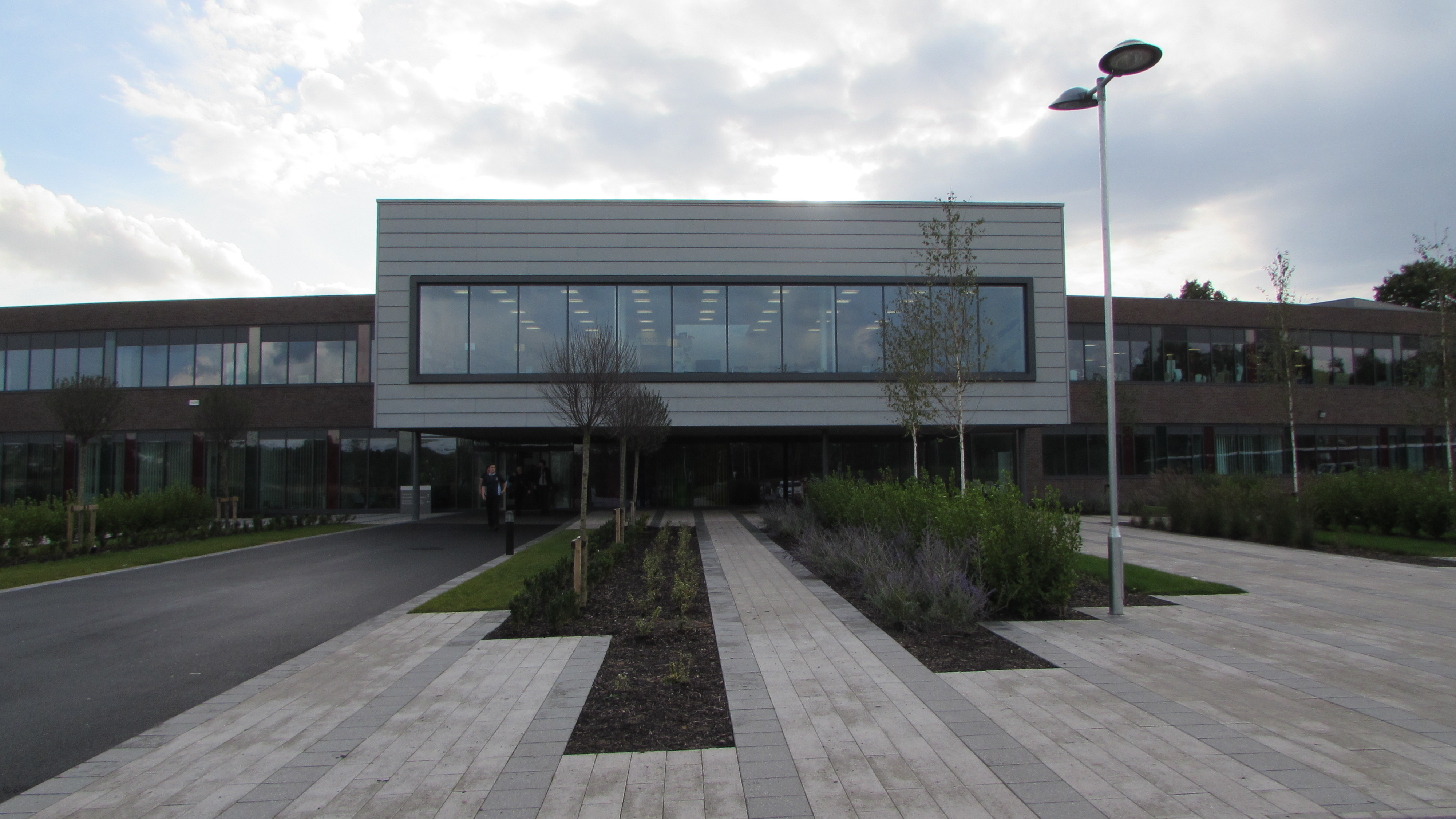 Image showing the front exterior of the new 2013 St Teilo's Church in Wales High School building in Llanedeyrn, Cardiff. This is taken outside the main reception entrance, with the Learning Resource Centre (LRC, Library) shown above the entrance.